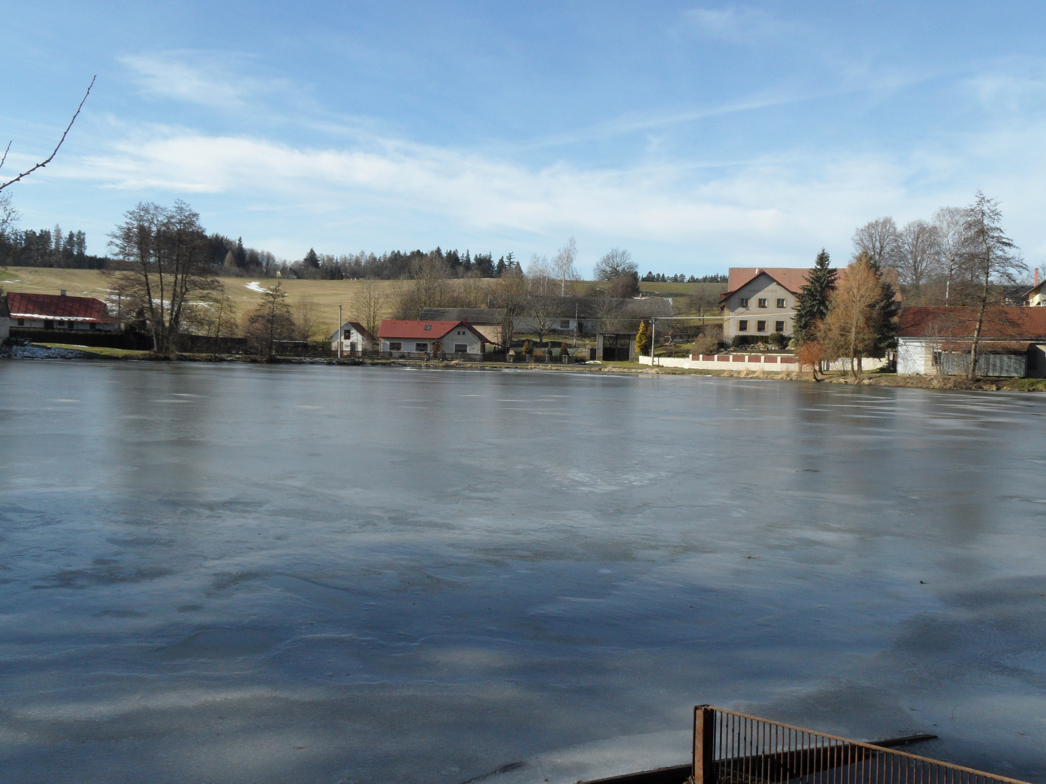 Opatovice I. L. Houses behind Mlýnský Pond, Kutná Hora District, the Czech Republic.